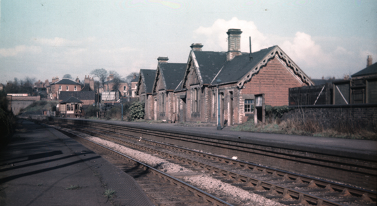 Kings Heath Station in 1956 Looking towards Birmingham City Centre